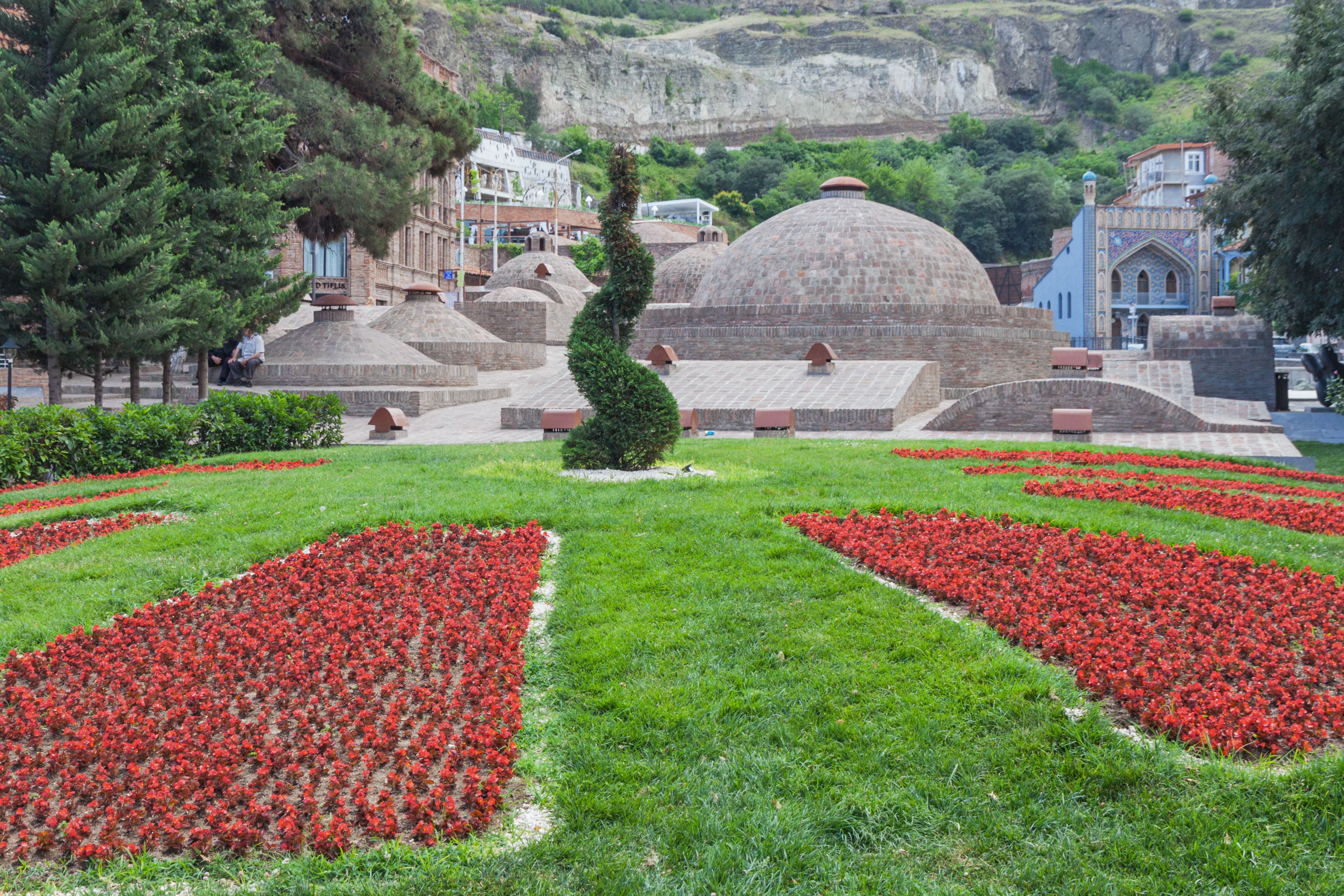 Sulfur baths in Abanotubani. Tbilisi, Georgia.